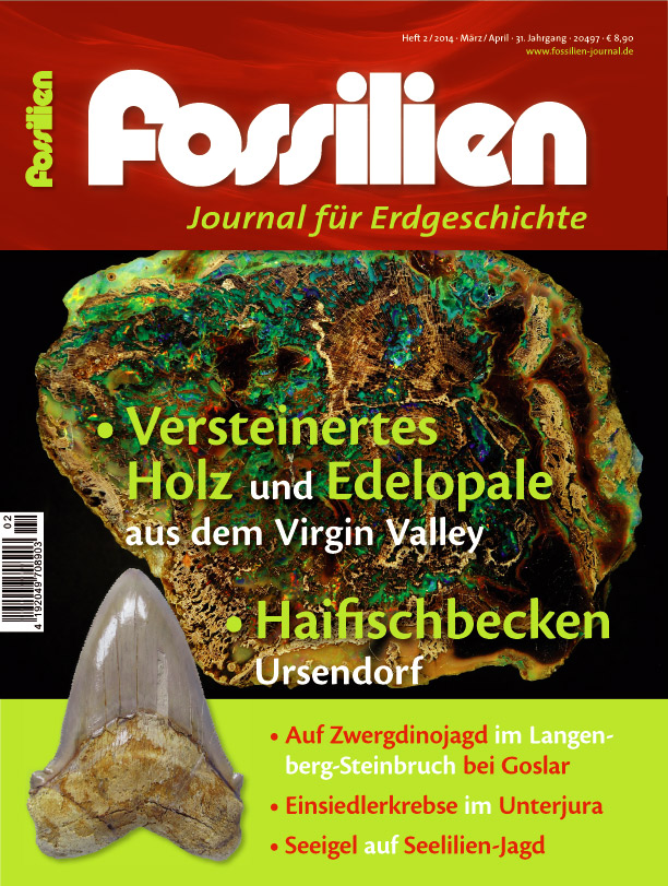 Front cover of the German journal for geological history "Fossilien" ("Fossils", issue no. 2/2014